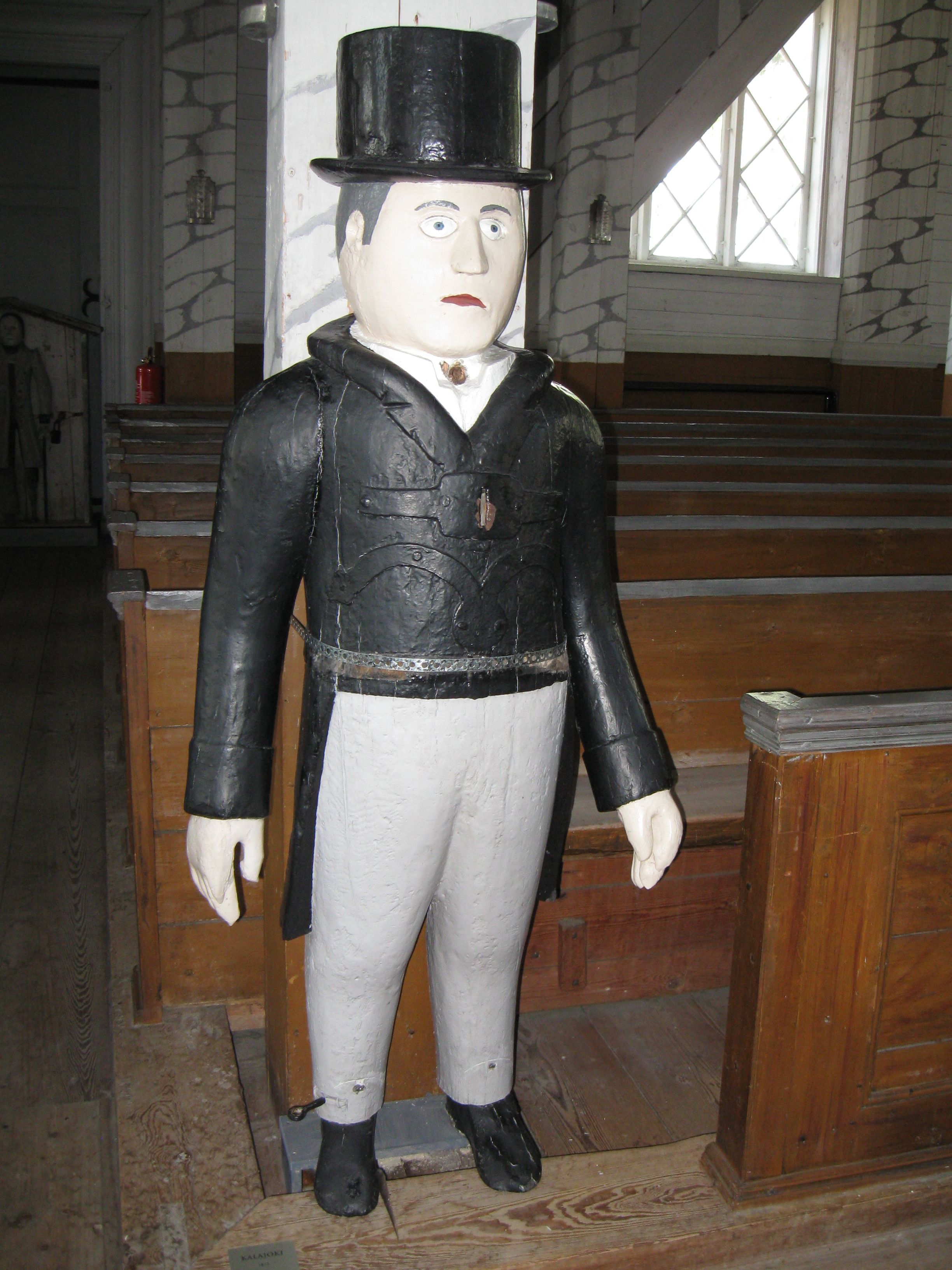 The wooden poor man of the Kalajoki church, Finland, photographed in the exhibition held in the Kerimäki church in June 2013.